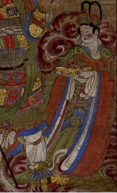 Female figure from the painting "Vaiśravaṇa Riding Across the Waters". Cave 17, Tunhwang, Five Dynasties and Ten Kingdoms period. Located in the British Museum.